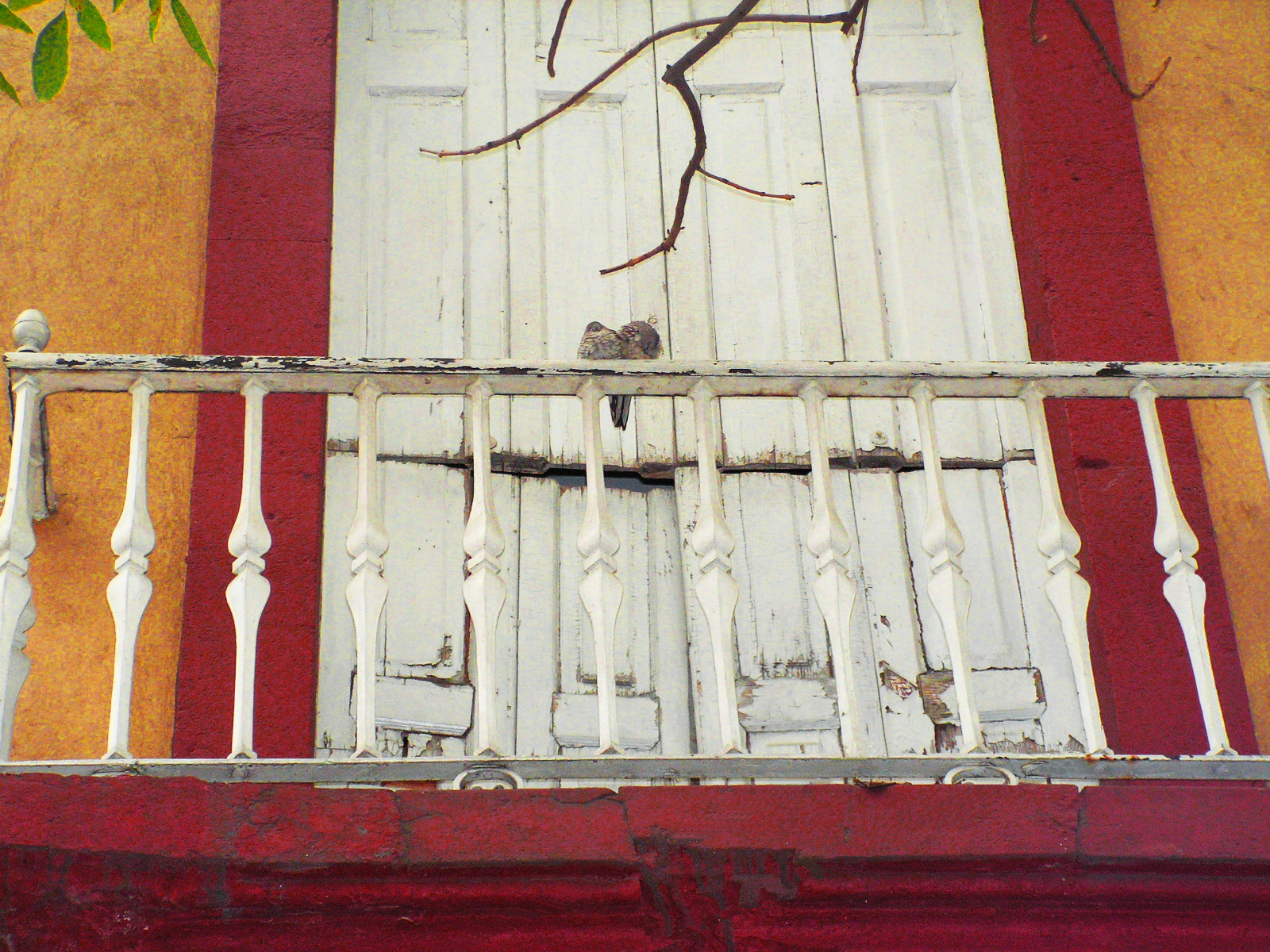 Two birds in a balcony. Colonia Roma, Mexico City.